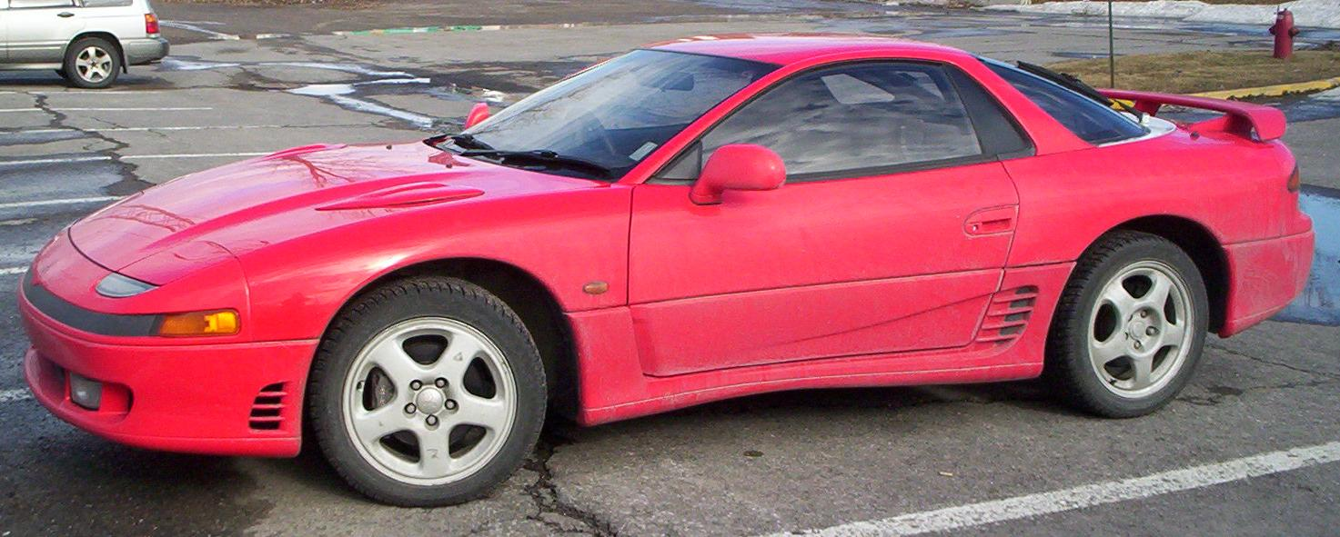 A RHD Mitsubishi GTO photographed in Montreal, Quebec, Canada